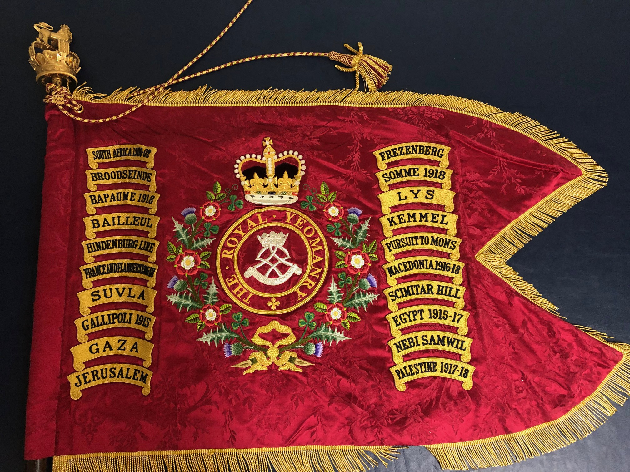 This is the Regimental guidon (the cavalry term for the 'colours'), the battle flag of the Royal Yeomanry, a regiment of the British Army Reserve.